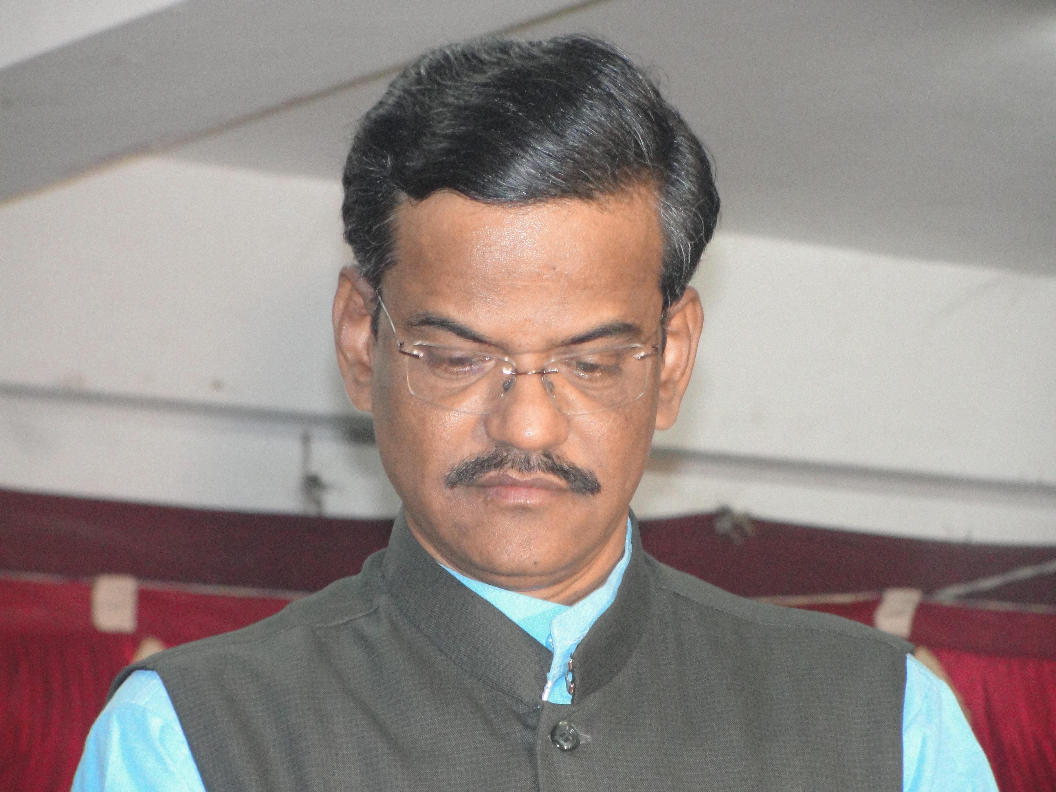 Gangavathi Pranesh, a standup comedian, specialised in giving humours lectures